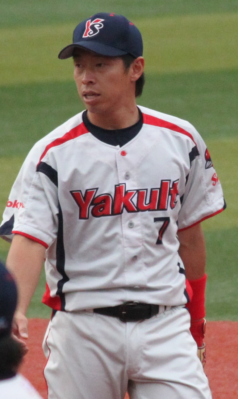 Hiroyasu Tanaka, infielder of the Tokyo Yakult Swallows, at Yokohama Stadium.